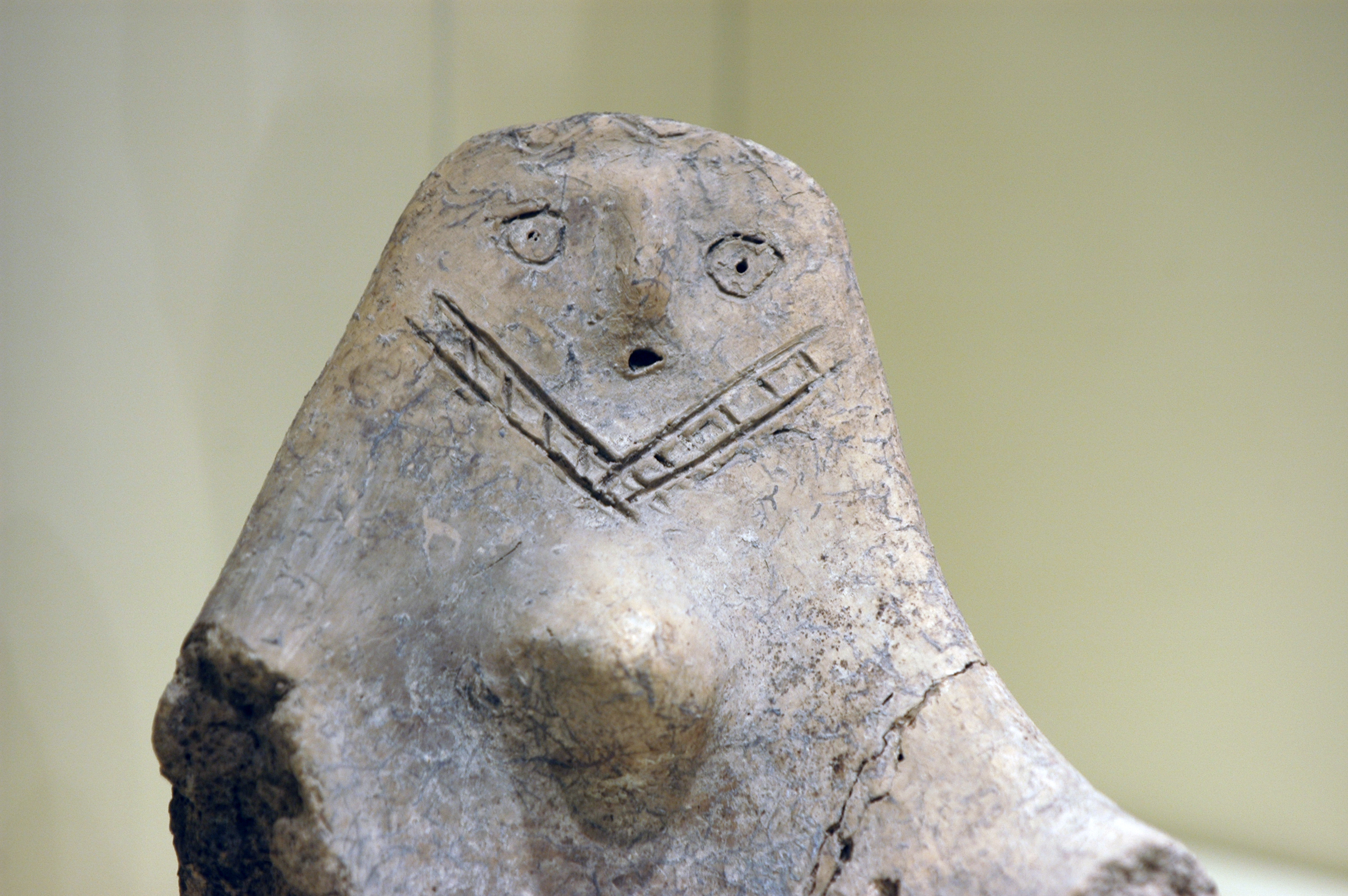 This "person", along with some friends, formed part of a utensil that would keep a vessel well above a fire. From the middle and late Bronze Age, 2000-1200 BC.